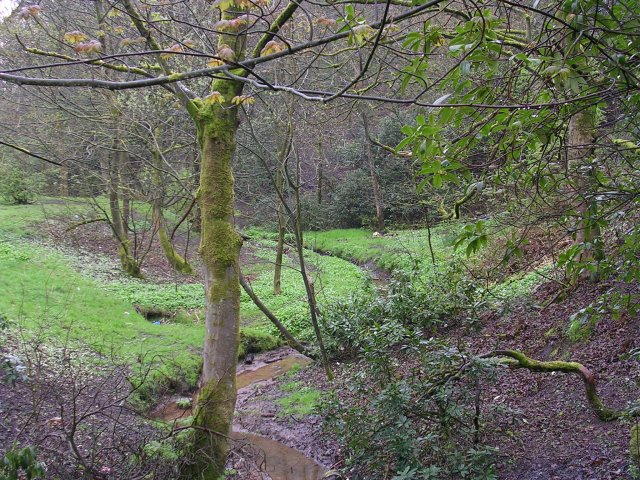 Boggart Hole Clough Brook. This park, just north of Manchester city centre, contains some dramatic ravines. Local legend associates a boggart with this area. A boggart is a mischievous spirit mainly found in Lancashire and Yorkshire, they were thought to be responsible for poltergeist activity.